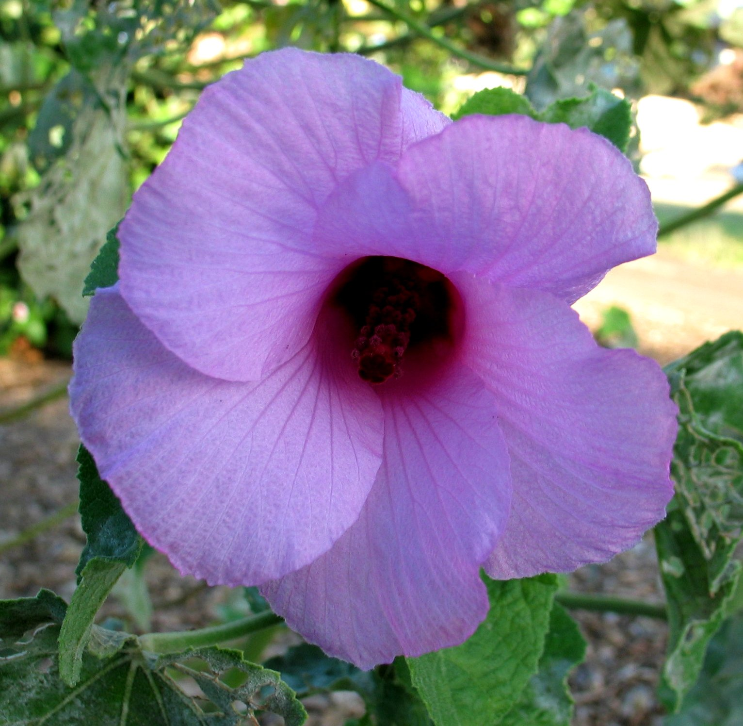 ʻAkiahala, ʻakiohala, Linden-leaf rosemallow, Lindenleaf rosemallow Indigenous to the Hawaiian Islands Oʻahu (Cultivated) ʻAkiohala were cultivated by the early Hawaiians. The bases of the buds of hau hele (H. arnottianus, H. furcellatus) were chewed by the mother and given to infants as a laxative. Children would chew and swallow seeds for general weakness of the body. NPH 00002